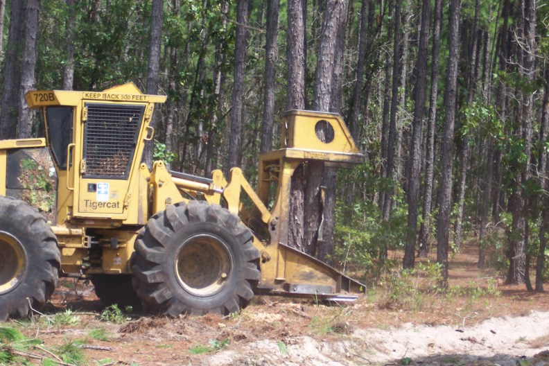 A Tigercat 720B feller buncher machine at Ft. Bragg